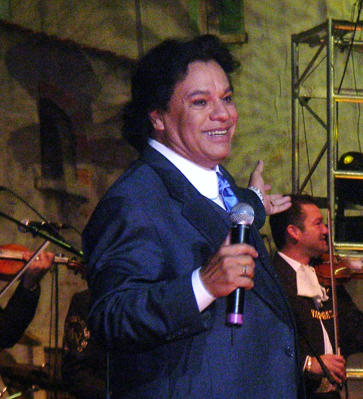 Juan Gabriel at the 2006 San Jose Mariachi Festival